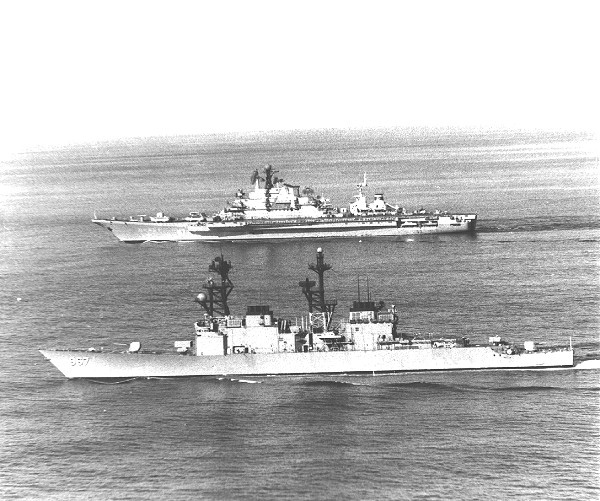 Arabian Sea: The U.S. Navy destroyer USS Elliot (DD-967) and the Soviet aircraft carrier Minsk underway in the Arabian Sea, during surveillance operations against the Minsk Task Group in 1979.